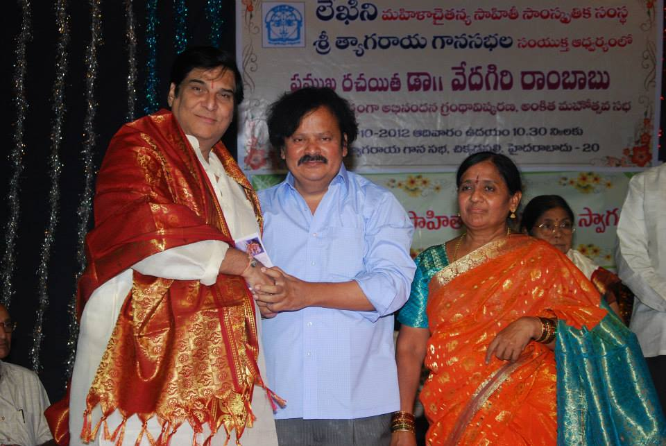 కె.వి. రమణాచారి ని సన్మానం చేస్తున్న వేదగిరి రాంబాబు, సంధ్యారాణి